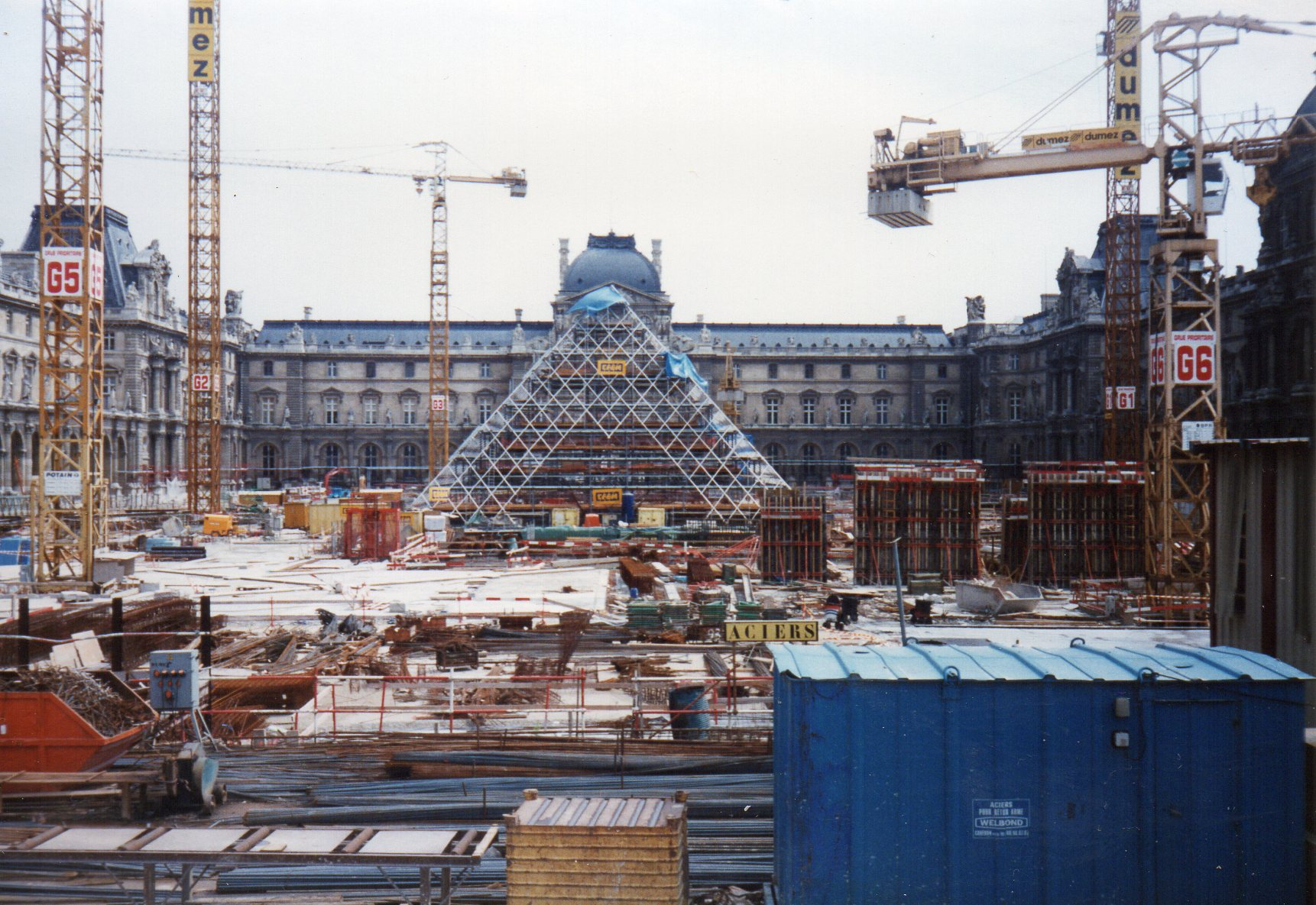 Louvre Pyramid in construction in August 1987, Paris France.